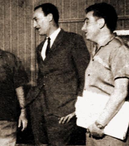 Argentine film director Enrique Carreras (right) with Antonio Carrizo on the set of El noveno mandamiento (1962)